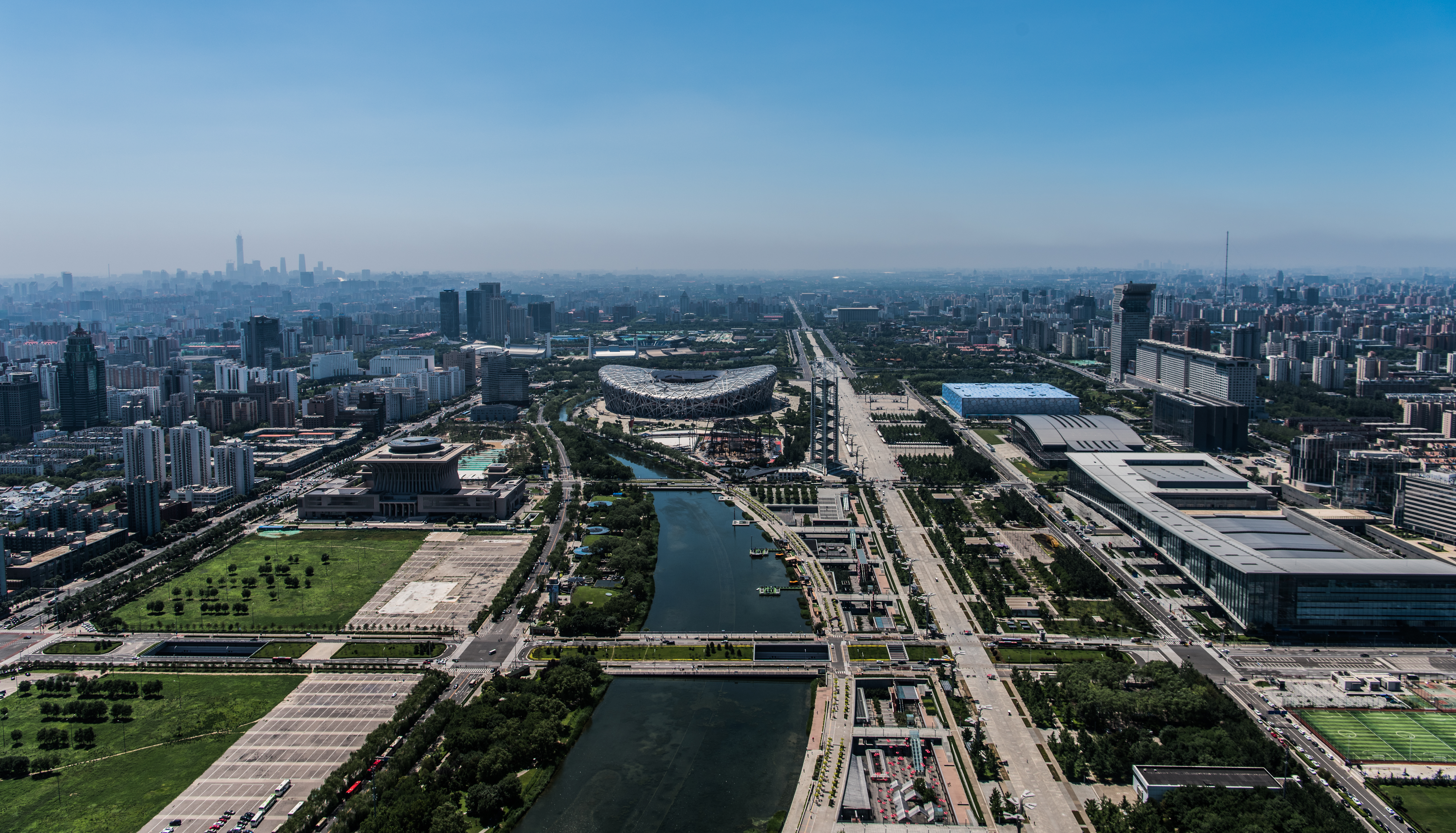 Beijing Olympic Green, featuring the National Stadium and National Aquatics Center.